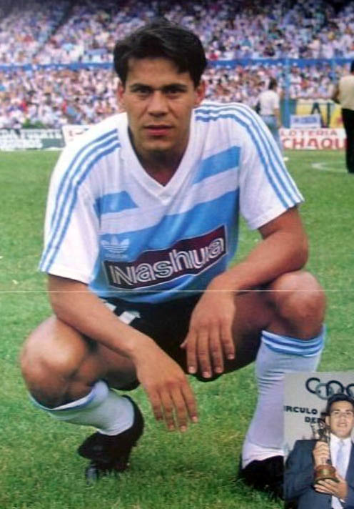 Uruguayan footballer Rubén Paz.